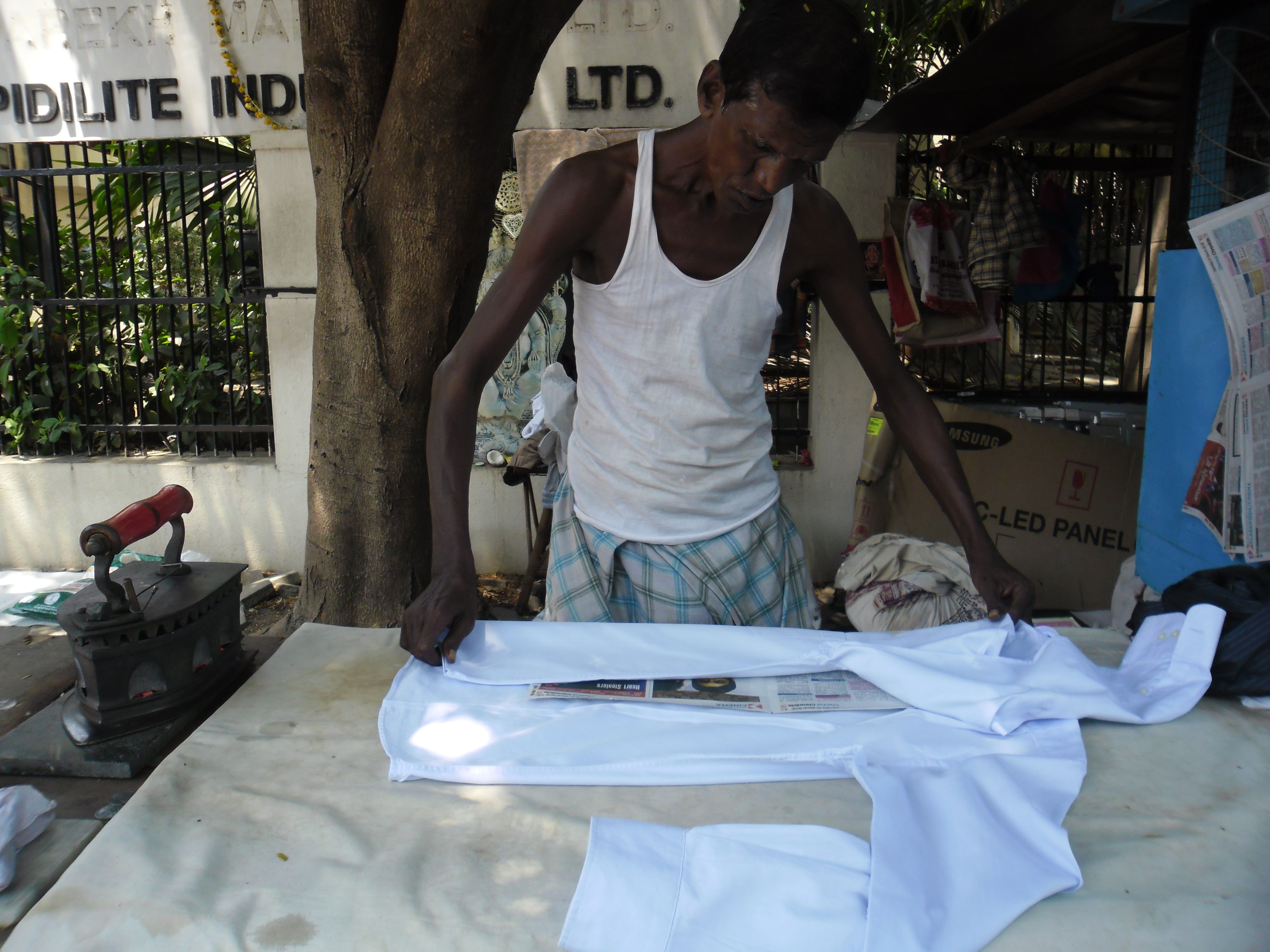 A man folding shirt after it was ironed.